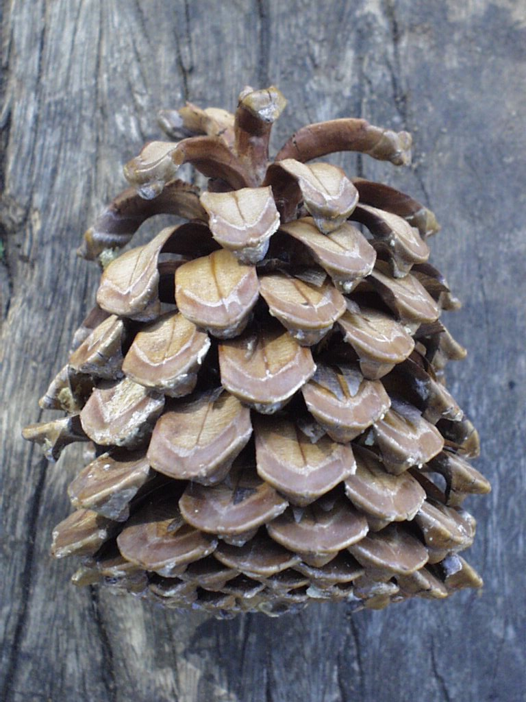 Canary Island pine (Pinus canariensis) open seed cone.